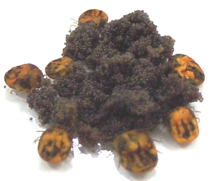 Boophilus microplus tick